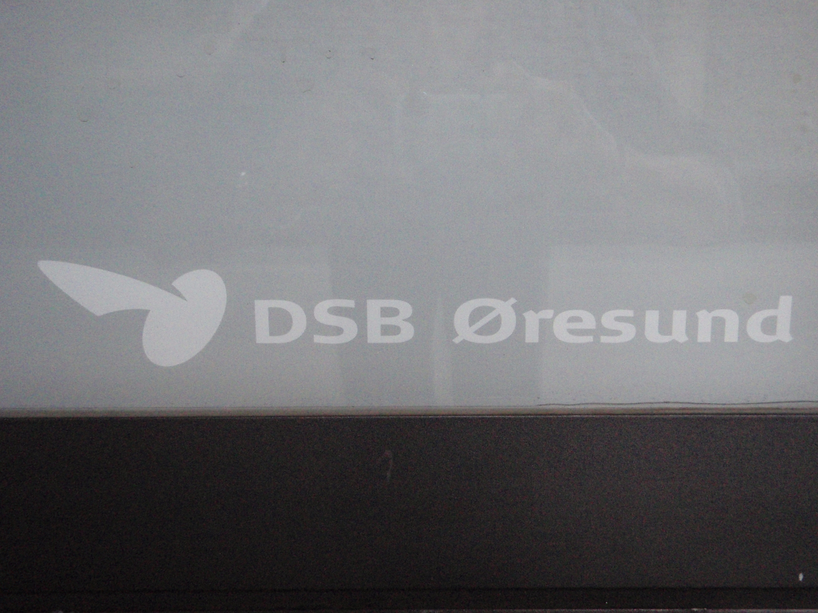 DSB Øresund logo at Copenhagen Airport Station